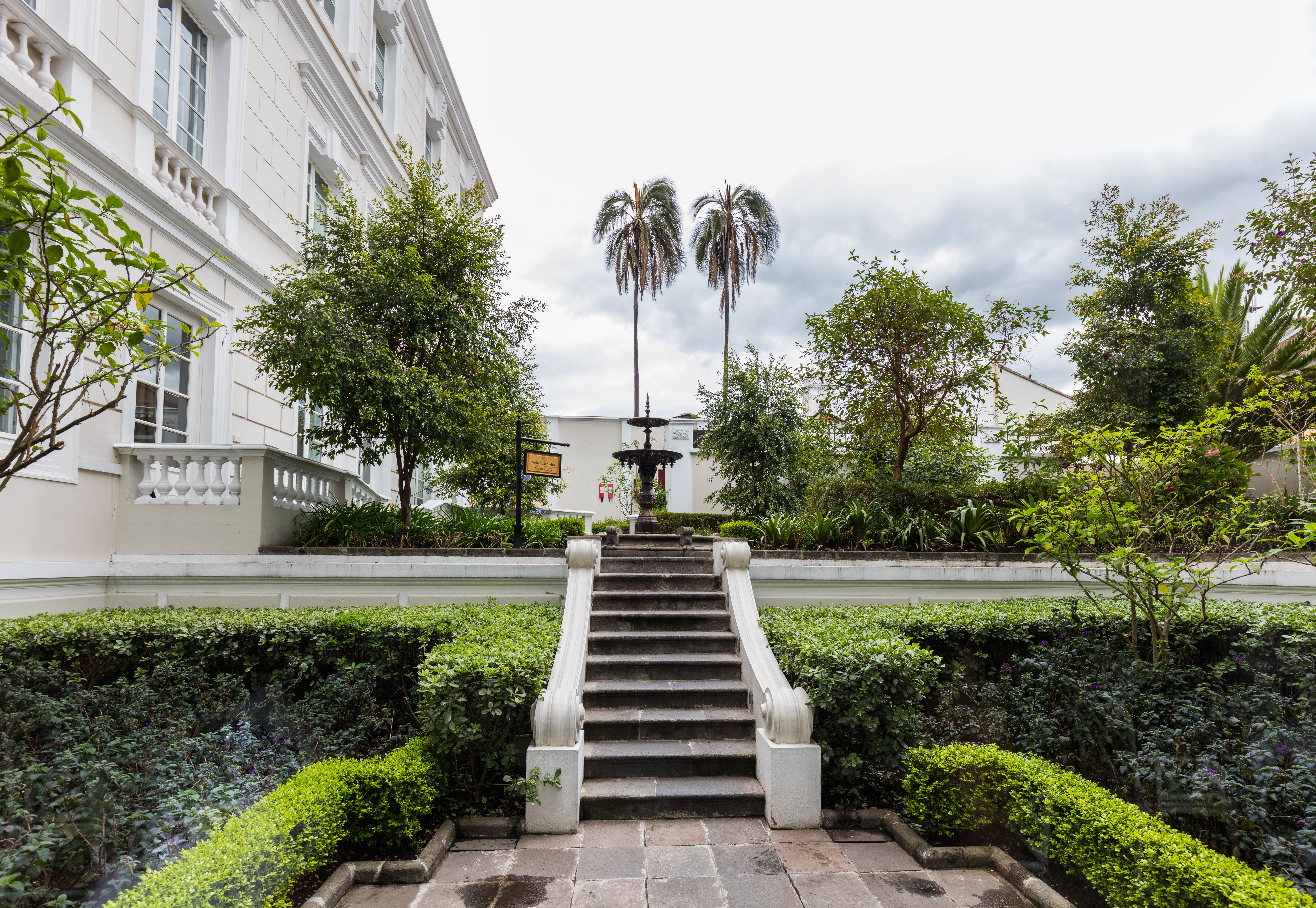 Gangotena Palace, Quito, Ecuador